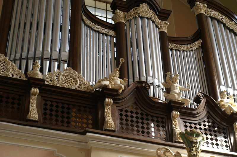 Organ in Franciscan Monastery in Woźniki, close to Grodzisk Wielkopolski, Poland If you need full-res quality copy of this picture - contact me.